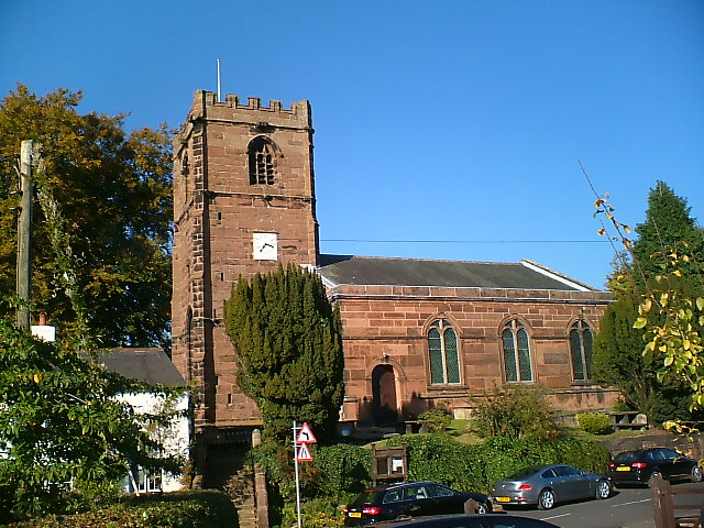 Exterior of church